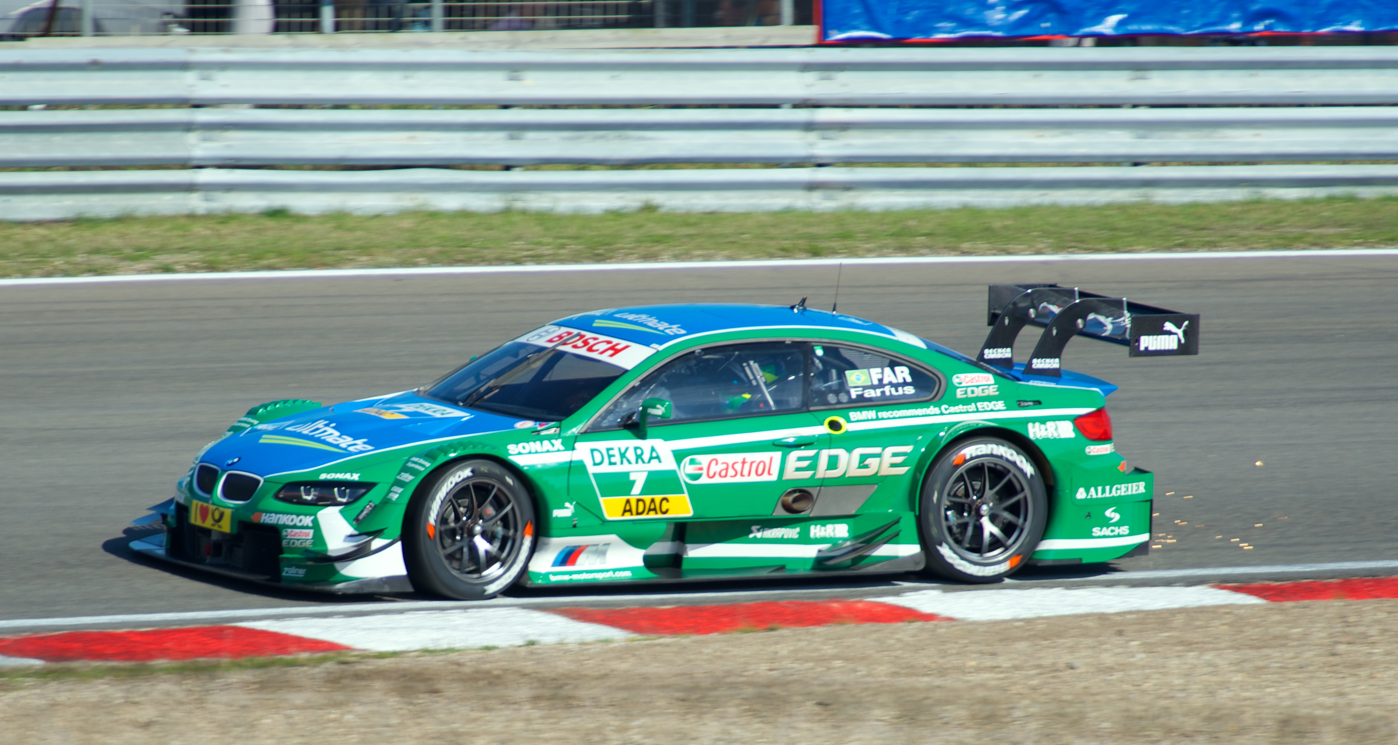 BMW M3 DTM (E92) of Racing Bart Mampaey, DTM Zandvoort, 2013. Augusto Farfus.